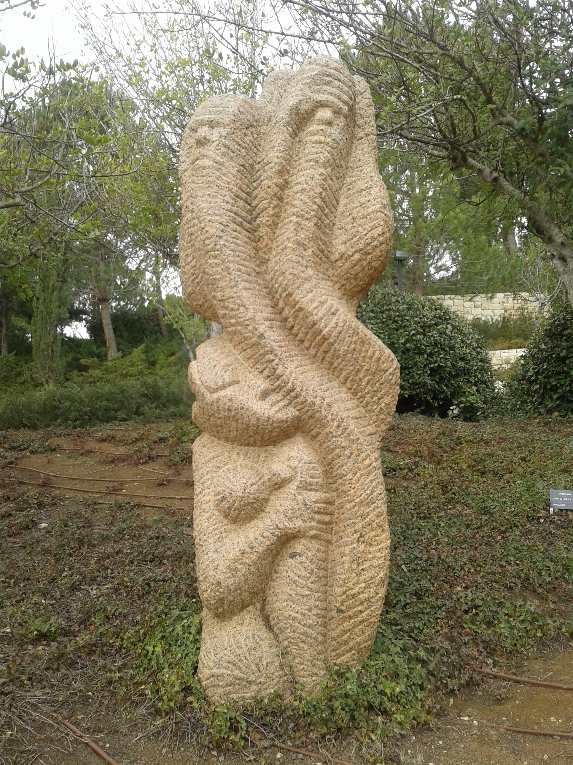 Anonymous RAN sculpture at Yad Vashem by Shelomo Selinger